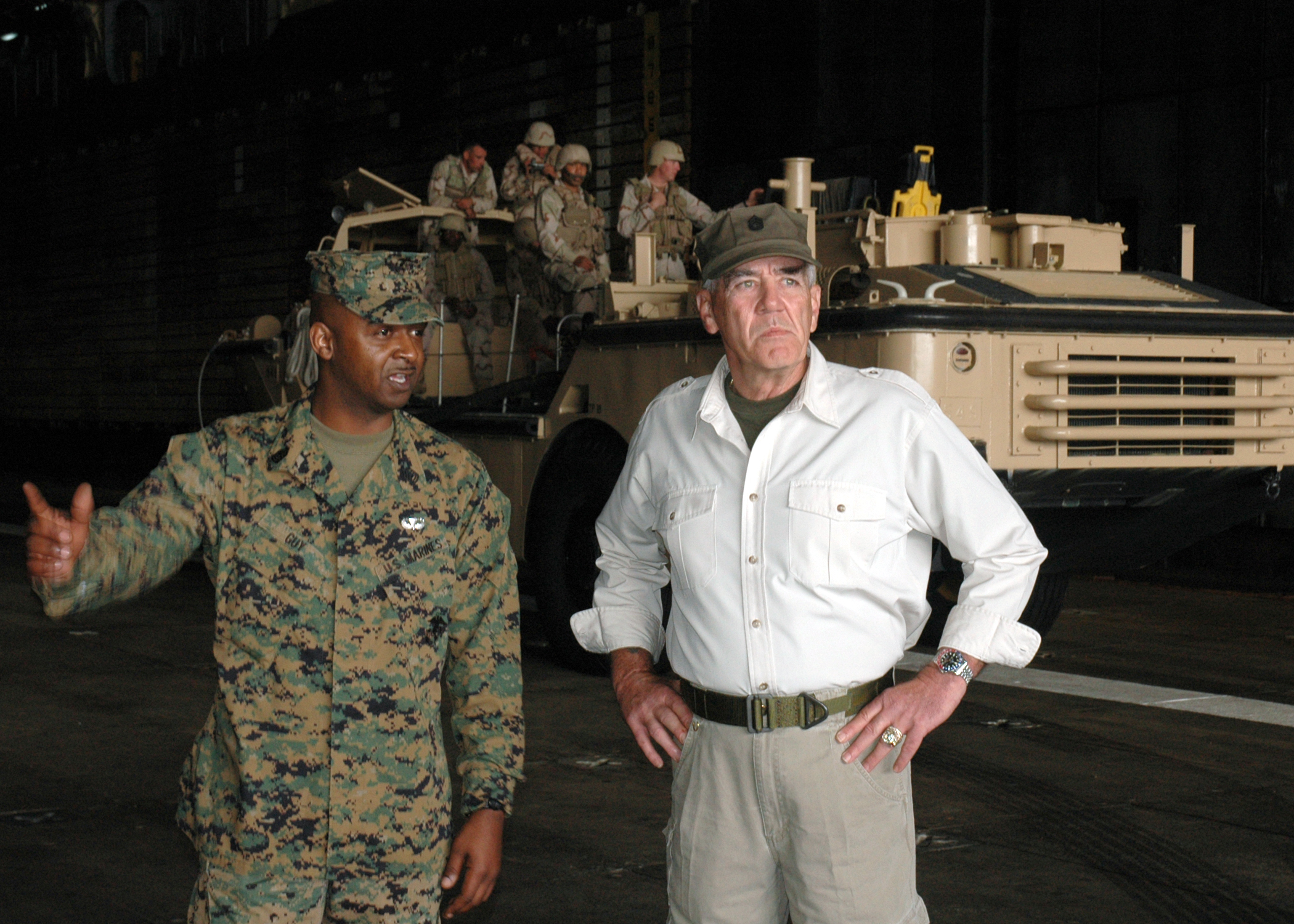 San Diego, Calif. (Mar. 22, 2005) - Gunnery Sgt. Elias Guy speaks with R. Lee Ermey, famed drill sergeant in the movie “Full Metal Jacket” and current host of the History Channel program “Mail Call,” in the well deck aboard USS Belleau Wood (LHA 3). Emery visited Belleau Wood to produce a segment for his show highlighting the capabilities of the Navy-Marine Corps team and the amphibious Navy. The program is scheduled to air at the late May 2005. U.S. Navy photo by Photographer’s Mate Airman Nelson A. Graca (RELEASED)